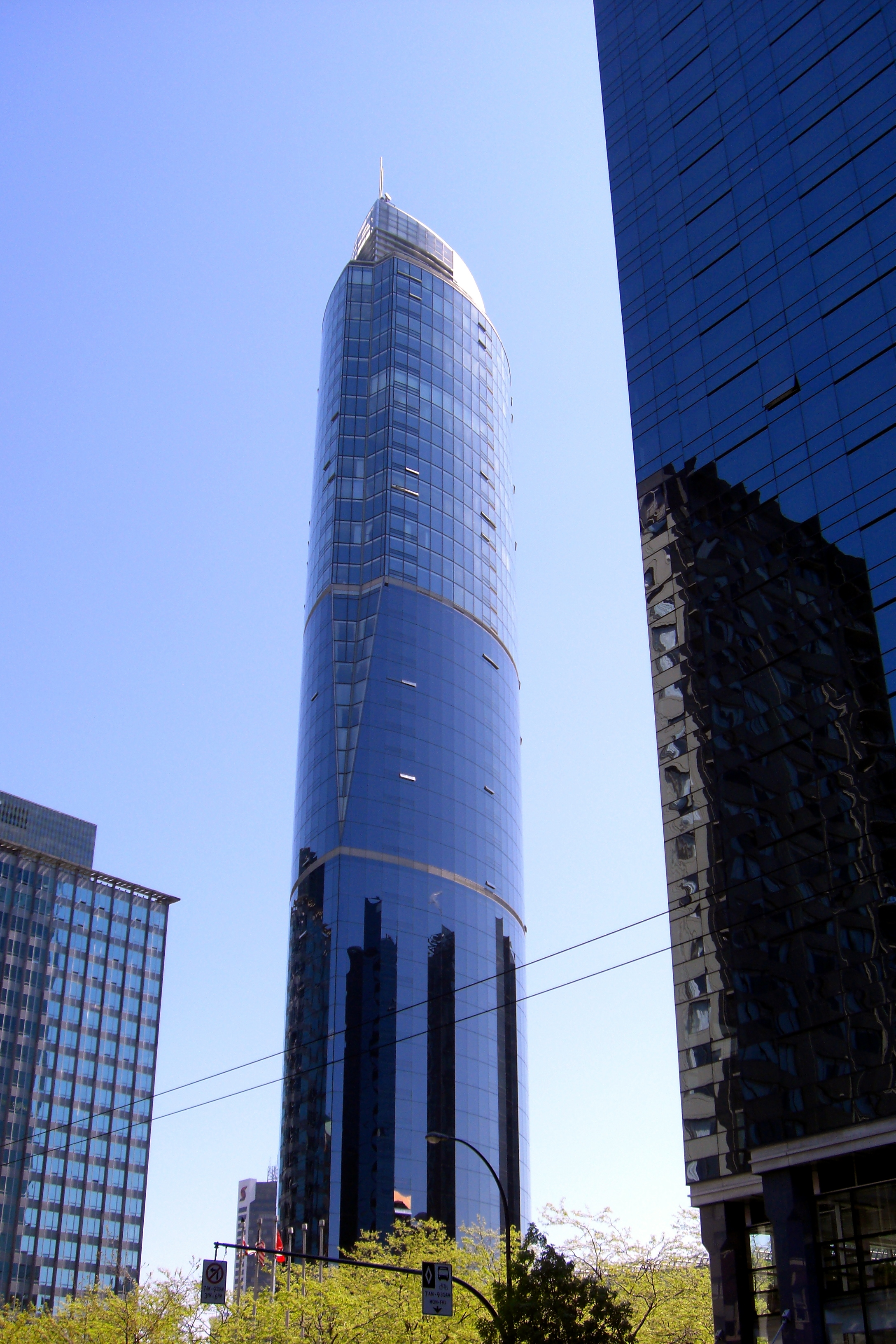 A picture taken from street level in downtown Vancouver. Featured prominently is the Wall Centre.